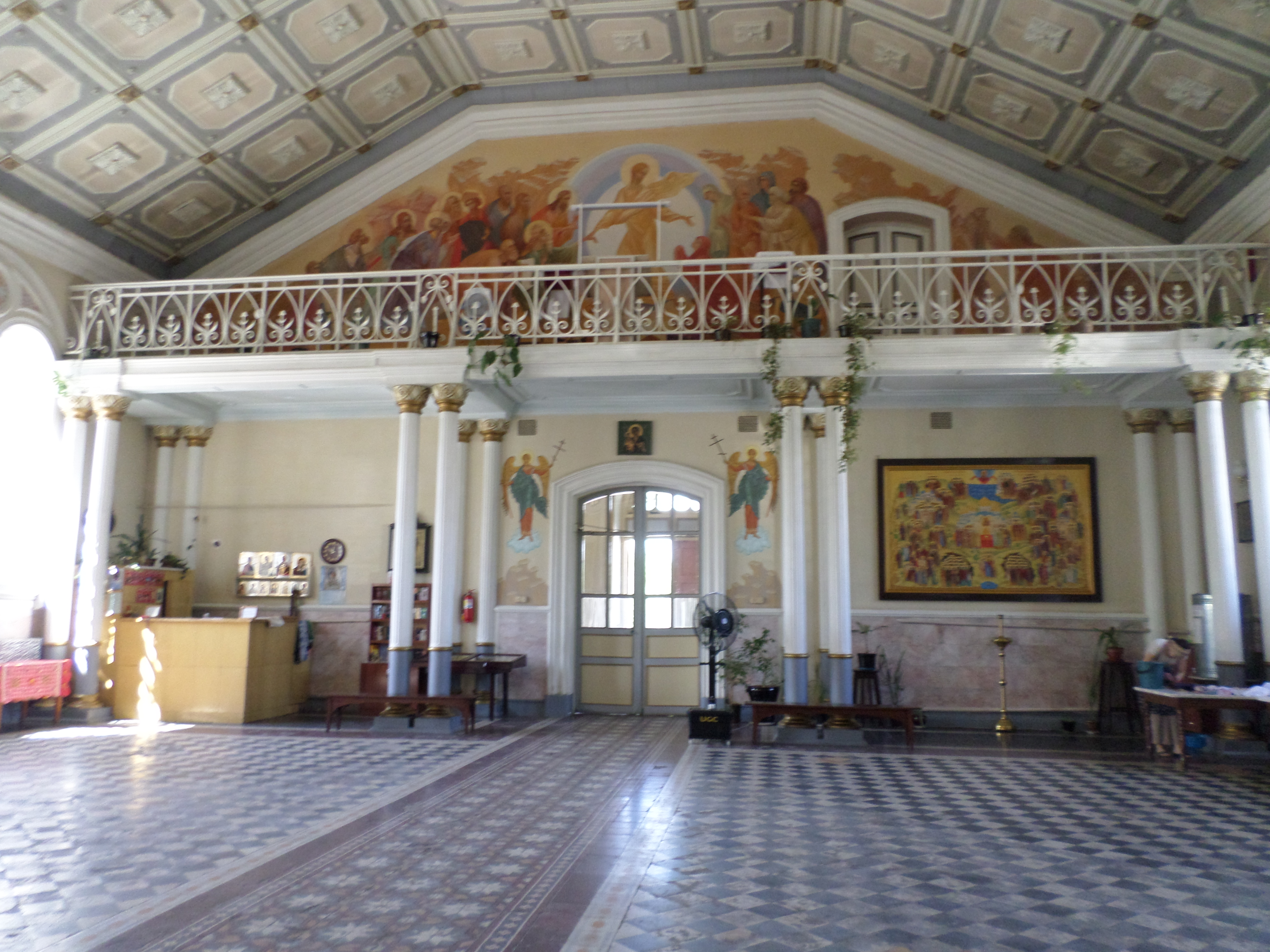 Cathedral of St. Alexis of Moscow to Samarkand